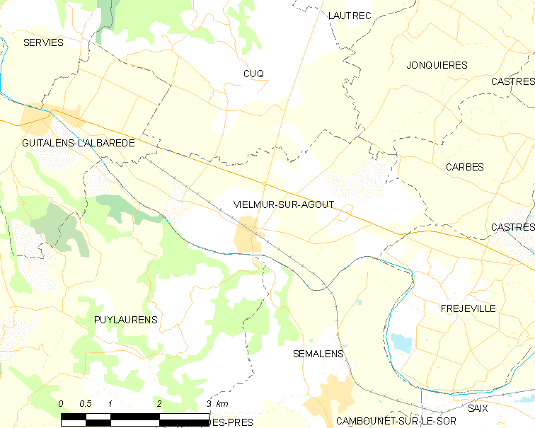 Map of French municipality Vielmur-sur-Agout